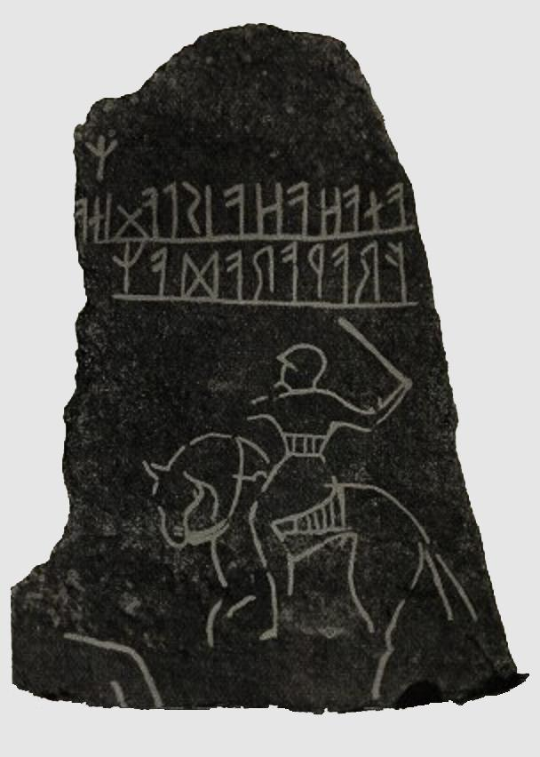 The Möjbro Runestone (U 877), ca. 5th century. An early Runestone from Hagby (earlier placed near Möjebro) in the county of Uppland, Sweden. The inscription reads frawaradaz / anahahaisla[g]ina/z. The first word is a personal name, Frawa-radaz. This drawing by Oscar Montelius (”Om lifvet i Sverige under hednatiden” page 81, 1905).